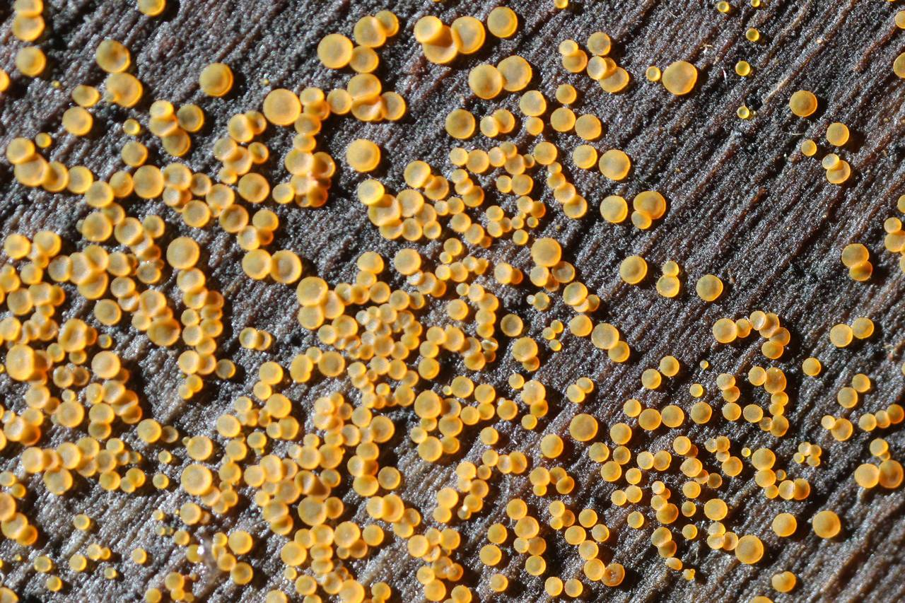 Orbilia xanthostigma (Fr.) Fr. Image location: COMA 1st annual Fugus Fair, Ward Pound Ridge, New York, USA Recognized by sight For more information about this, see the observation page at Mushroom Observer.